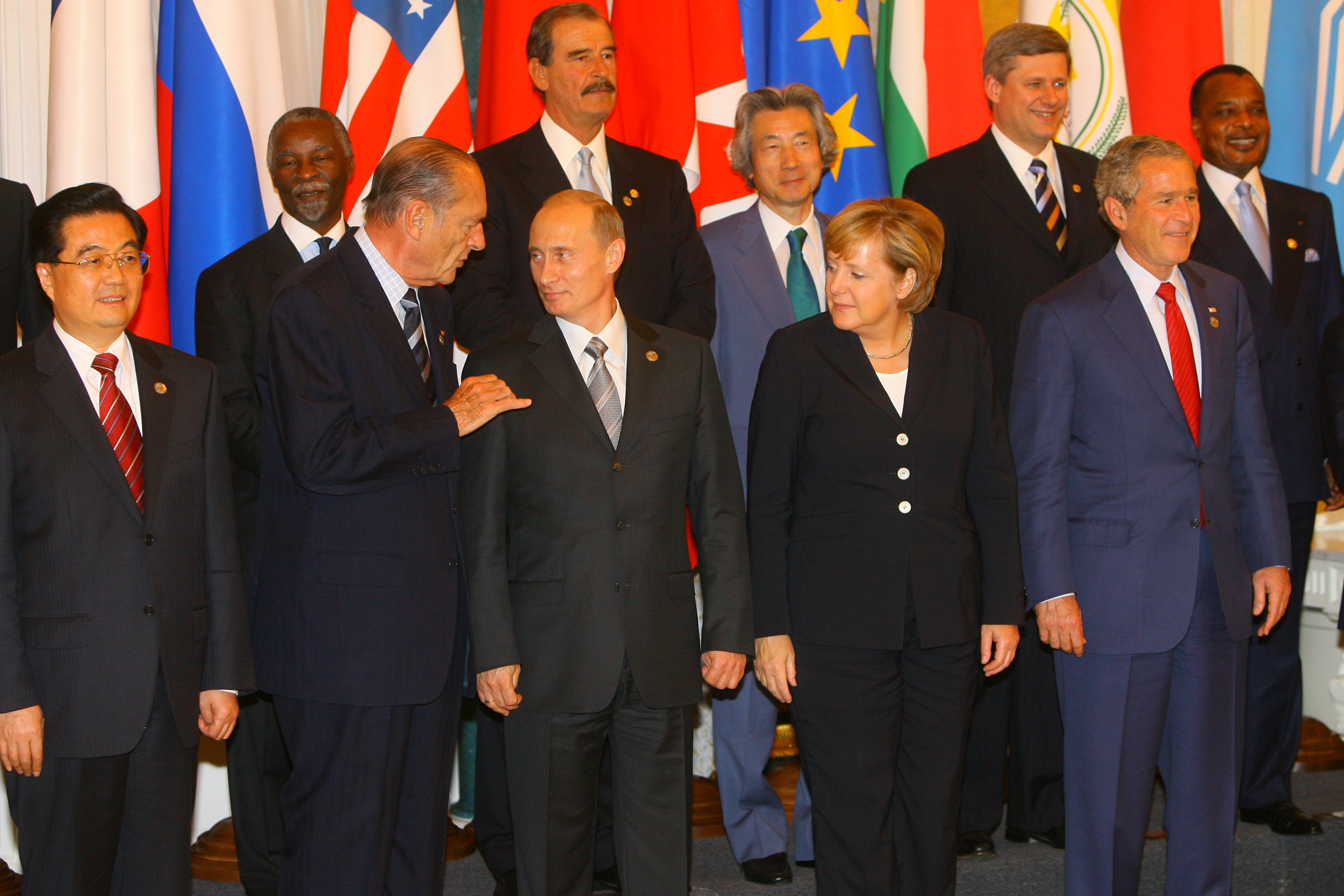 The official photo session of the G8 leaders, invited leaders and heads of international organizations: (Front row, left to right:) President of the People's Republic of China Hu Jintao, French President Jacques Chirac, Russian President Vladimir Putin, German Federal Chancellor Angela Merkel, U.S. President George Bush. (Second row, left to right:) President of the Republic of South Africa Thabo Mvuyelwa Mbeki, Mexican President Vicente Fox Quesada, Japanese Prime Minister Junichiro Koizumi, Canadian Prime Minister Stephen Harper and President of the Republic of the Congo Denis Sassou-Nguesso.